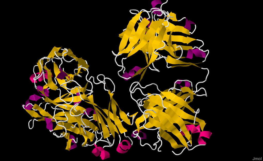 Fab domain of rituximab with a peptide epitope